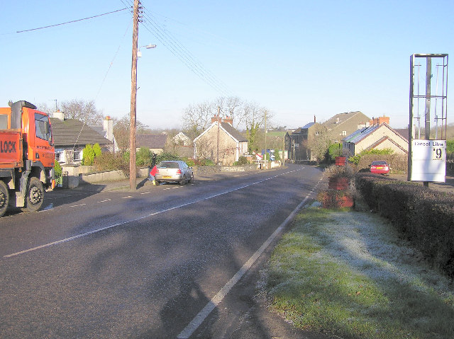 Stranocum, County Antrim. The village has a very active community association who among other events hold an annual duck race (in the river)